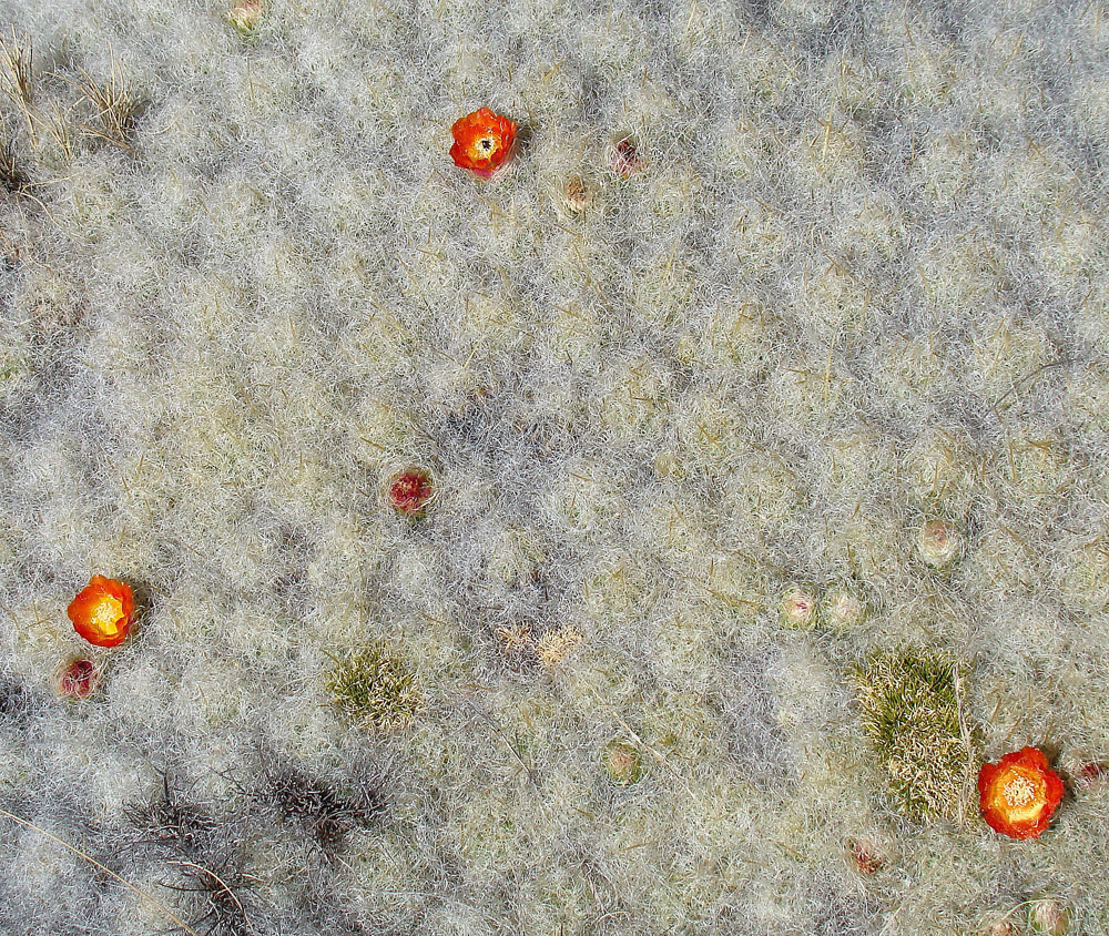 A mat cactus known as Huarco, covers patches of the Peruvian mountains. In context at